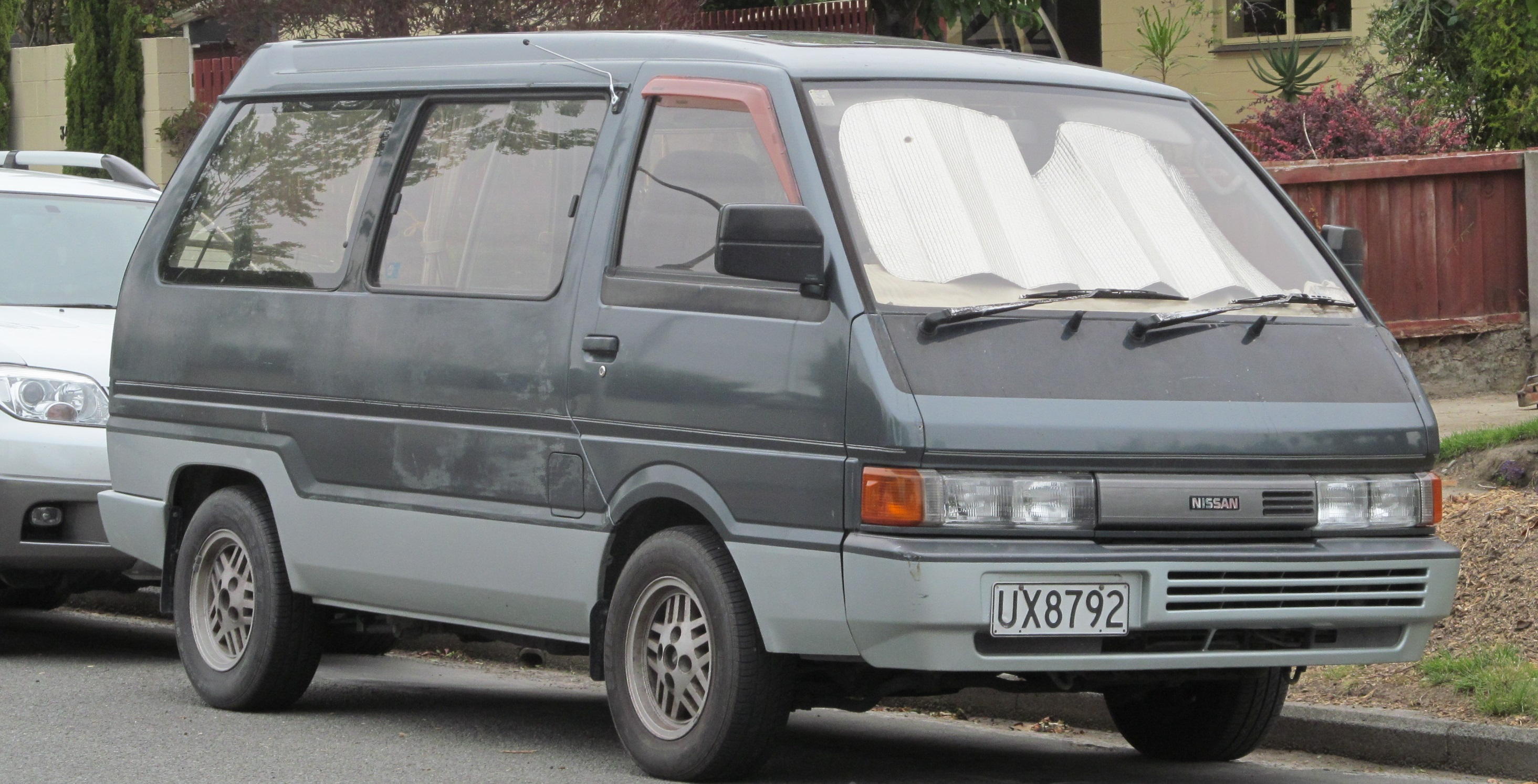 1987 Nissan Largo Super Saloon (KMGC22, Series 1). 1,973 cc petrol, 8-seater, date of NZ first registration: 1997-02-12.